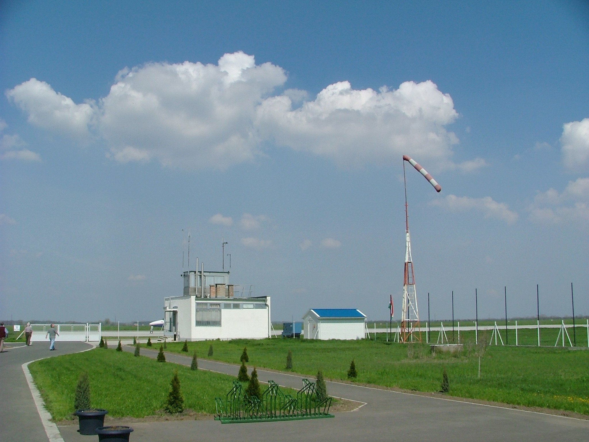 Pér, airport